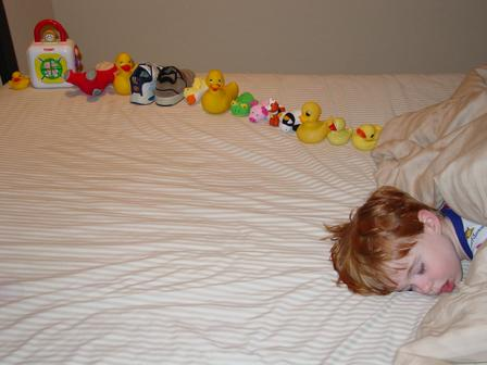 Subject: Quinn, an autistic boy, and the line of toys he made before falling asleep. Repeatedly stacking or lining up objects is a behavior commonly associated with autism. See more about Quinn at: Date: Circa 2003 Place: Walnut Creek, California Photographer: Andwhatsnext Original digital photograph (cropped and resized) Credit: Copyright (c) 2003 by Nancy J Price (aka Mom)